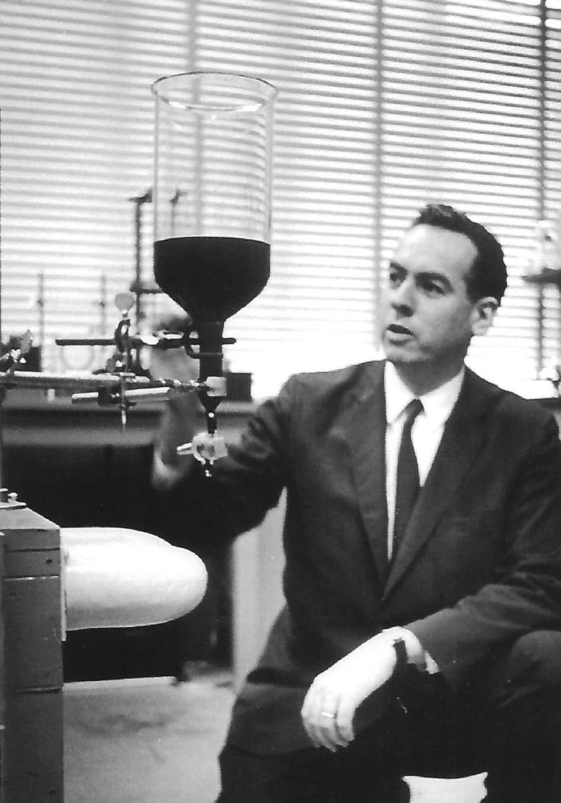 R. E. Rosensweig initially produced ferrofluid for a magnetocaloric energy conversion system.Photo taken in 1965.